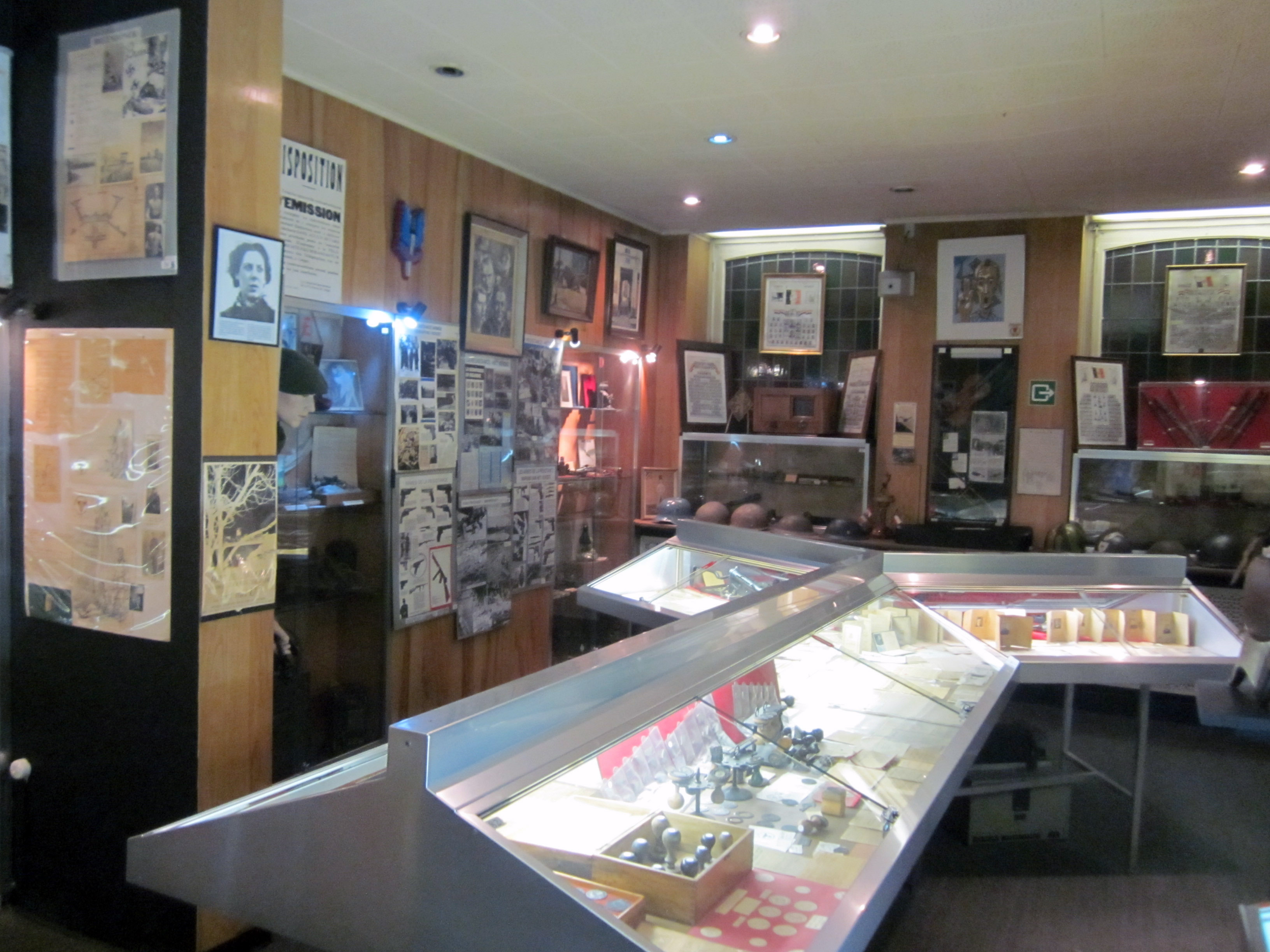 Inside of the National Museum of the Resistance, Anderlecht. The building was used by the photographer involved in the creation of the Faux Soir, 1943